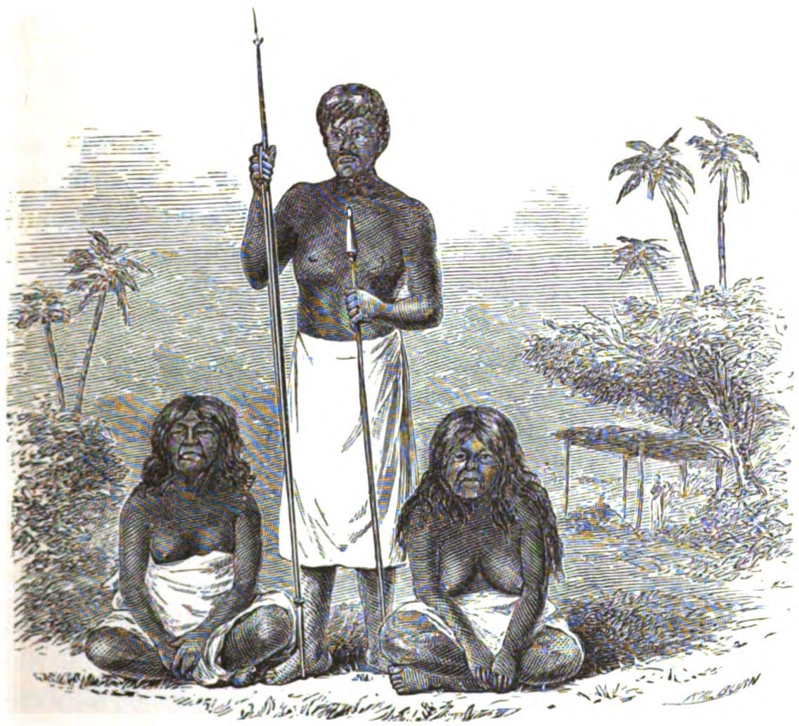 The Last of The Payaguas.